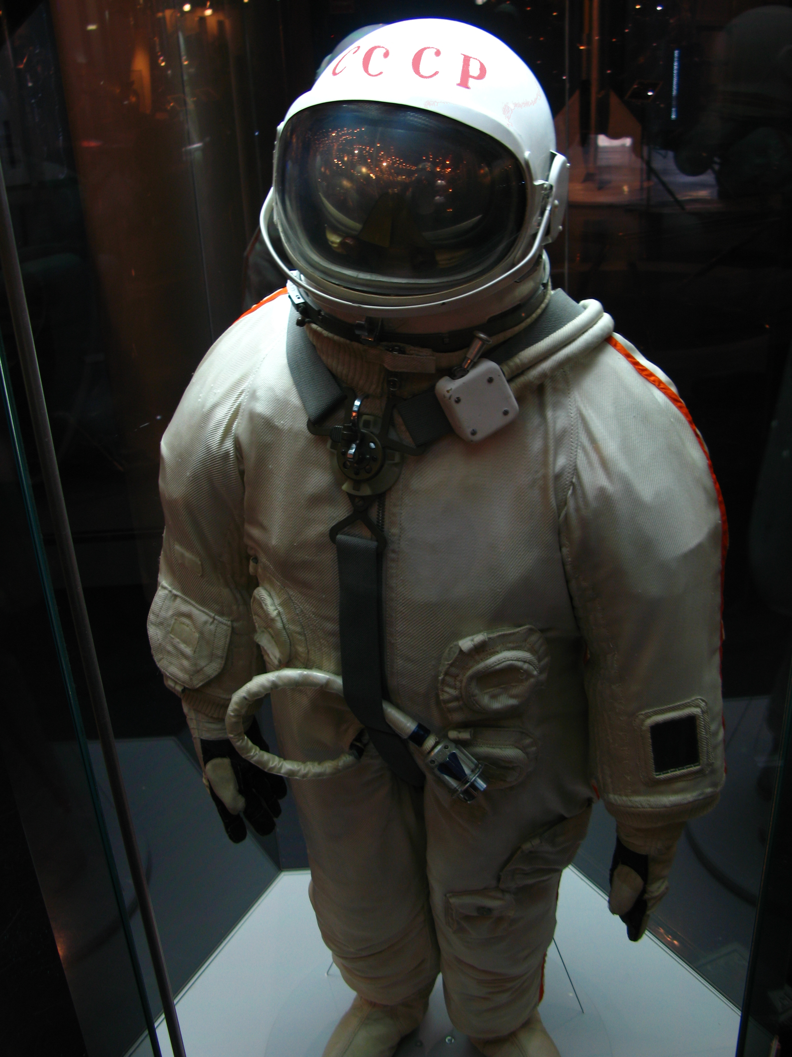 Soviet space scafandre.